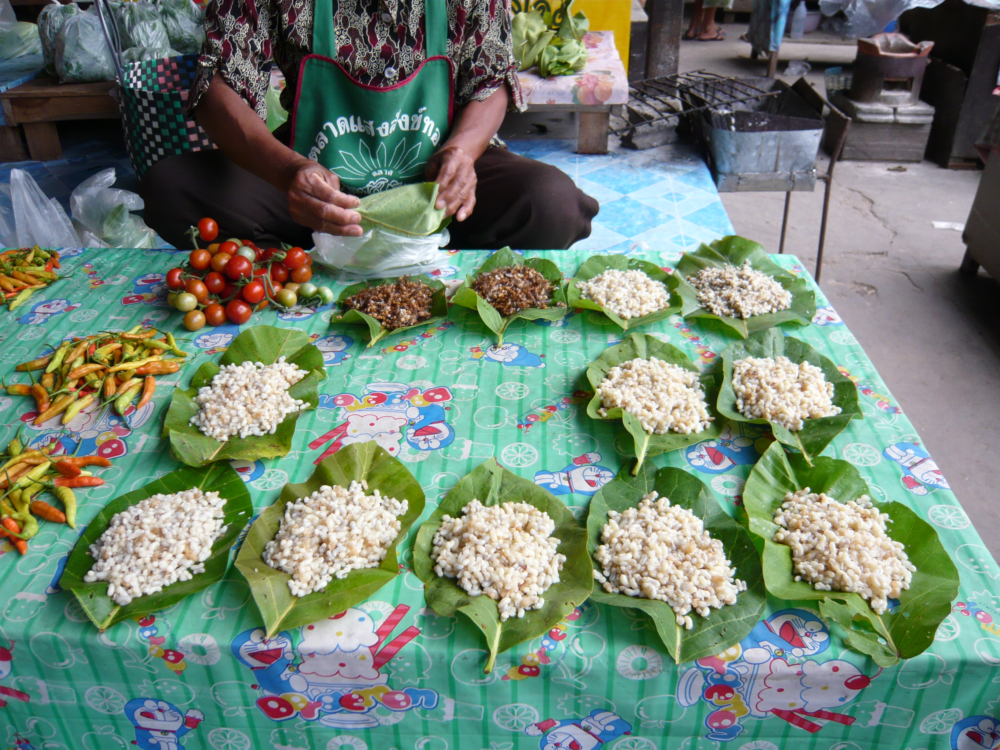 Ant larvae on sale in Isaan, Thailand.